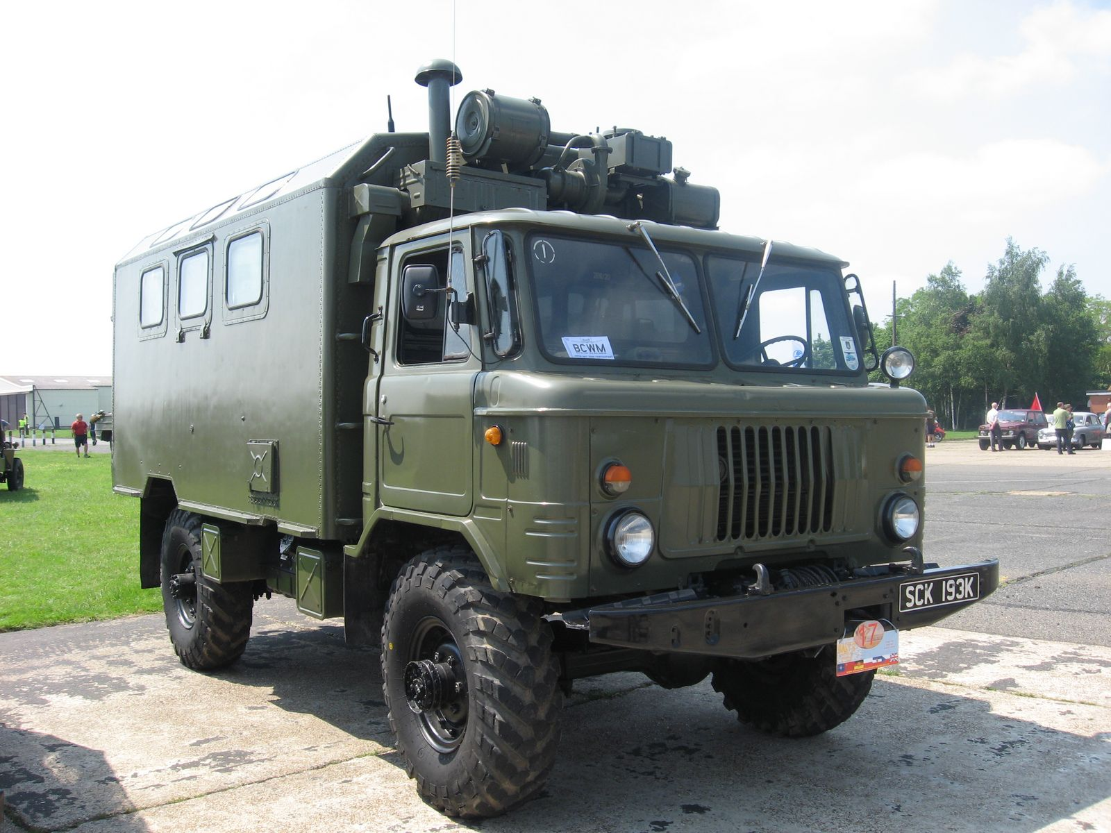 Soviet-made GAZ-66.